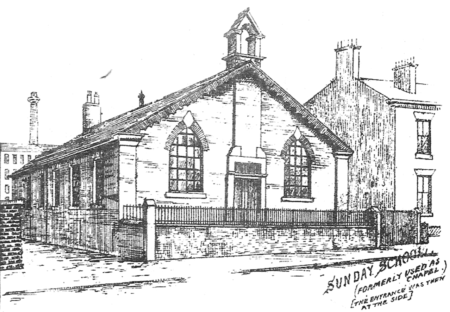 Drawing of the exterior of the original 1865 chapel on Main Road, prior to rebuilding of Sunday School Hall in 1906